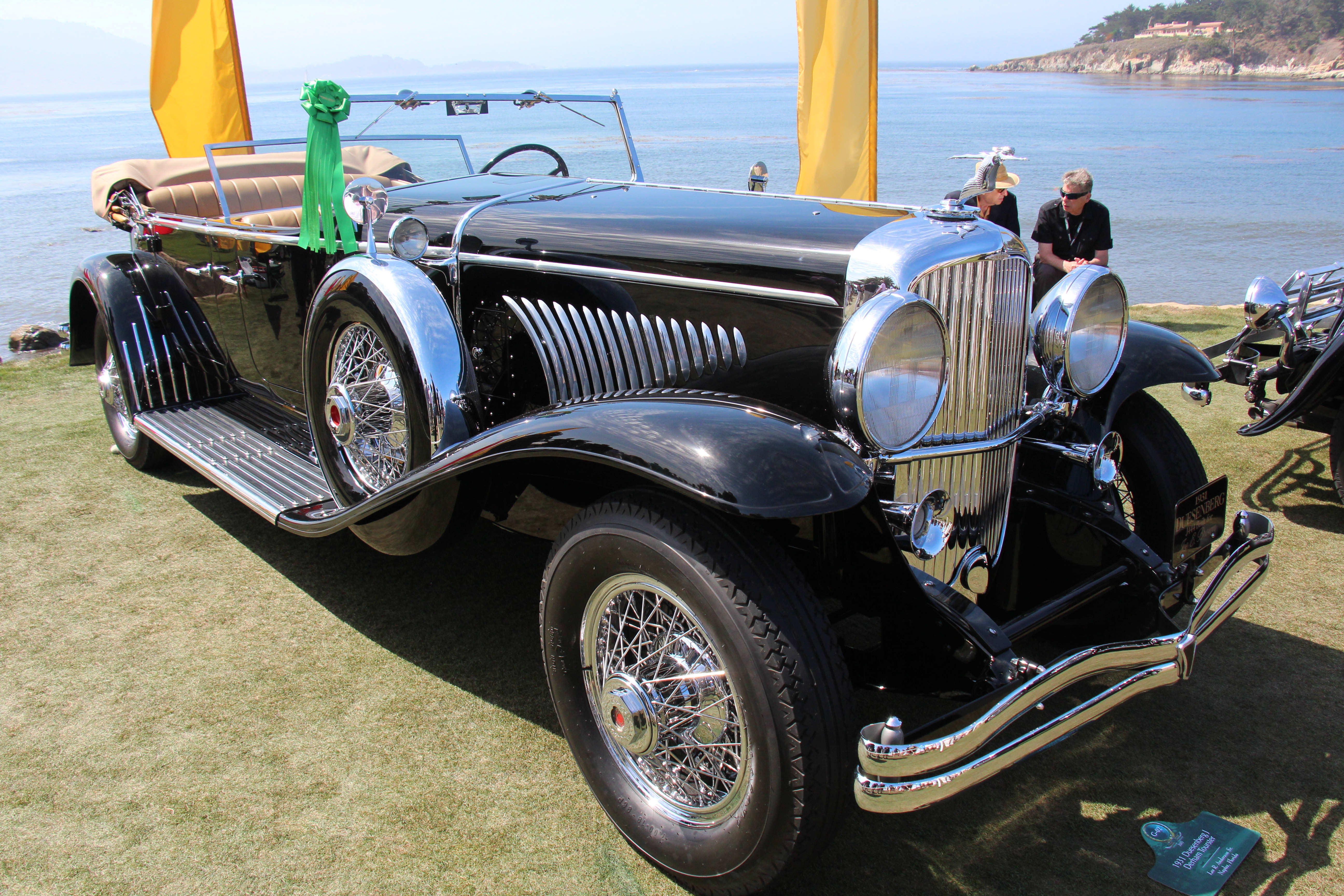 At the turn of the last century, Iowa bicycle makers August and Fred Duesenberg tinkered with gasoline engines and by 1913 Duesenberg Automobile Motors was manufacturing cars. E.L.Cord, who also owned Auburn bought Duesenberg in 1926. The Model J Duesenberg was a luxury car built from 1928-37. More famous people bought the Model J than that of any other American car. With the Tourster, Gordon Buehrig designed a better system for the second windscreen to fold out of the way, rather than hinged, like other phaetons, it slid up and down behind the front seat Toursters were built exclusively by the Derham Body Company in Rosemont, Pennsylvania, only 8 were produced. Engine; 265hp 420 cu in straight 8 OHC. Photographed at the 2015 Pebble Beach Concours d'Elegance